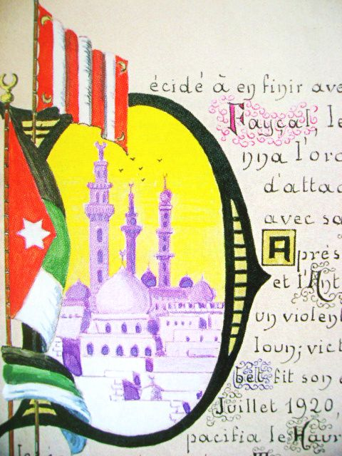 Illuminated initial with Arab revolt flag shown on left.